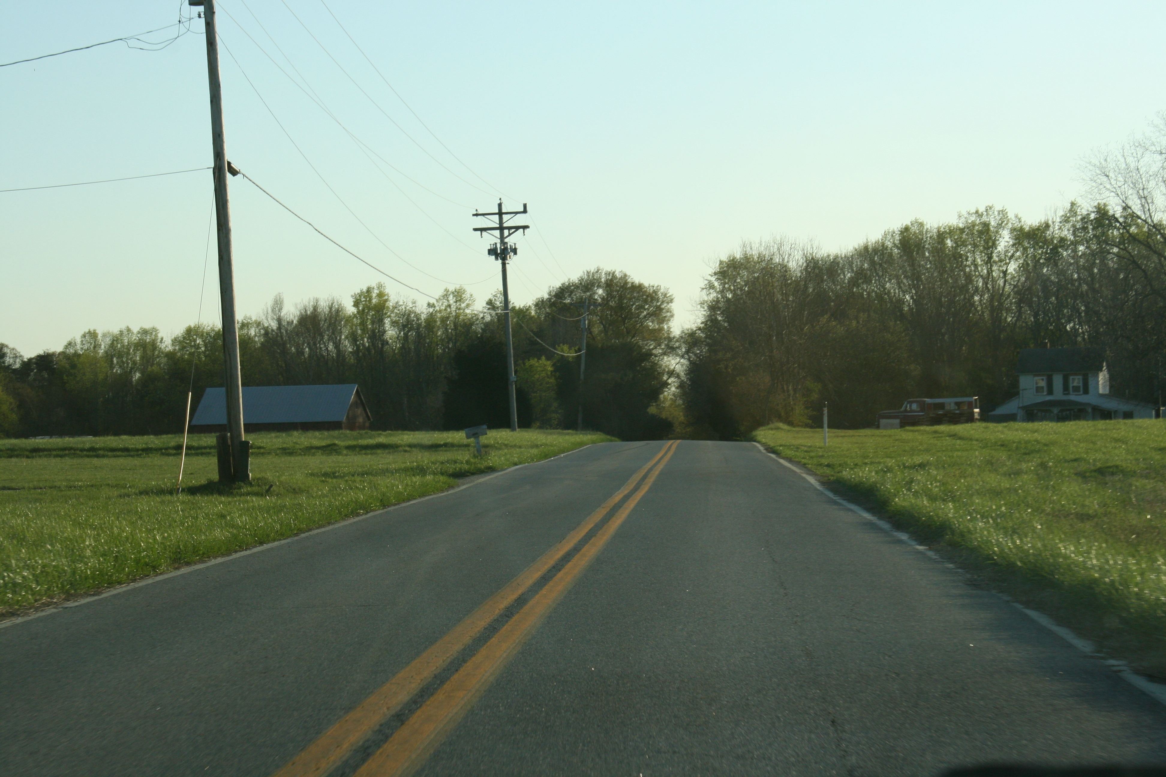 Shot of Maryland State Route 224 (Riverside Rd), heading southbound in Charles County in Southern Maryland.